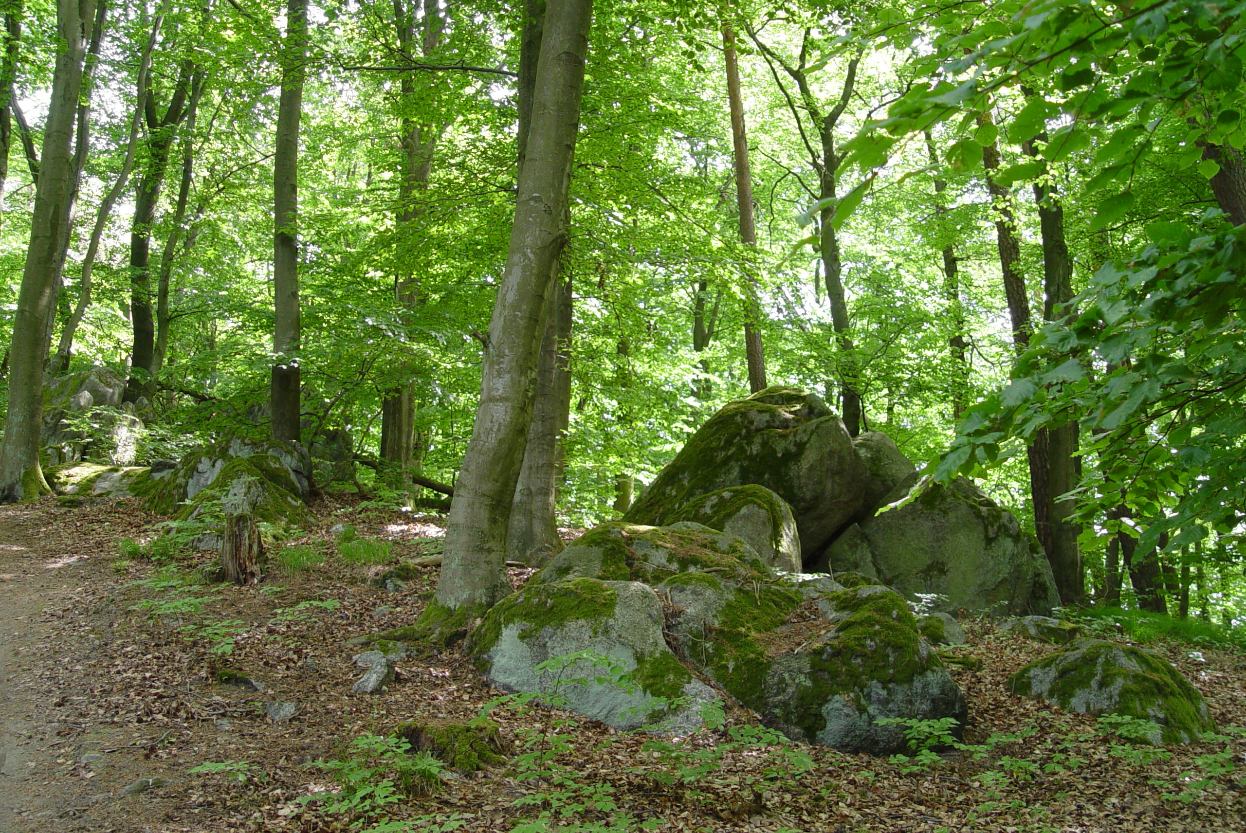 Aschaffenburg, protected landscape area "Felsmeer" (sea of rocks) at Stengerts hill acording to decree by the city of Aschaffenburg from 17.09.96. Former natural monument Aschaffenburg No. 7. Part of natural park Bavarian Spessart.